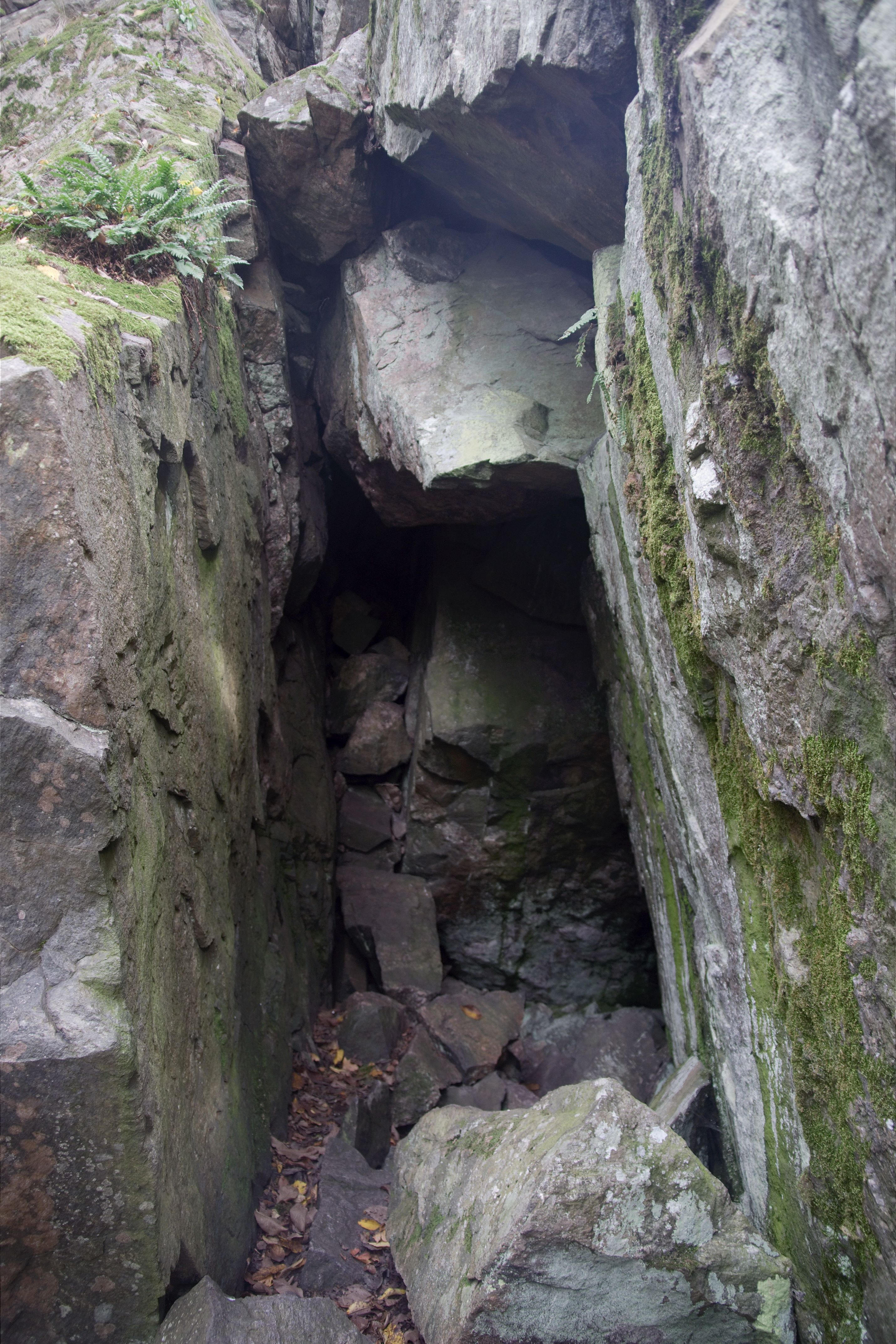 Eastern Klövbergcave in Tyresö, Sweden, entrance A